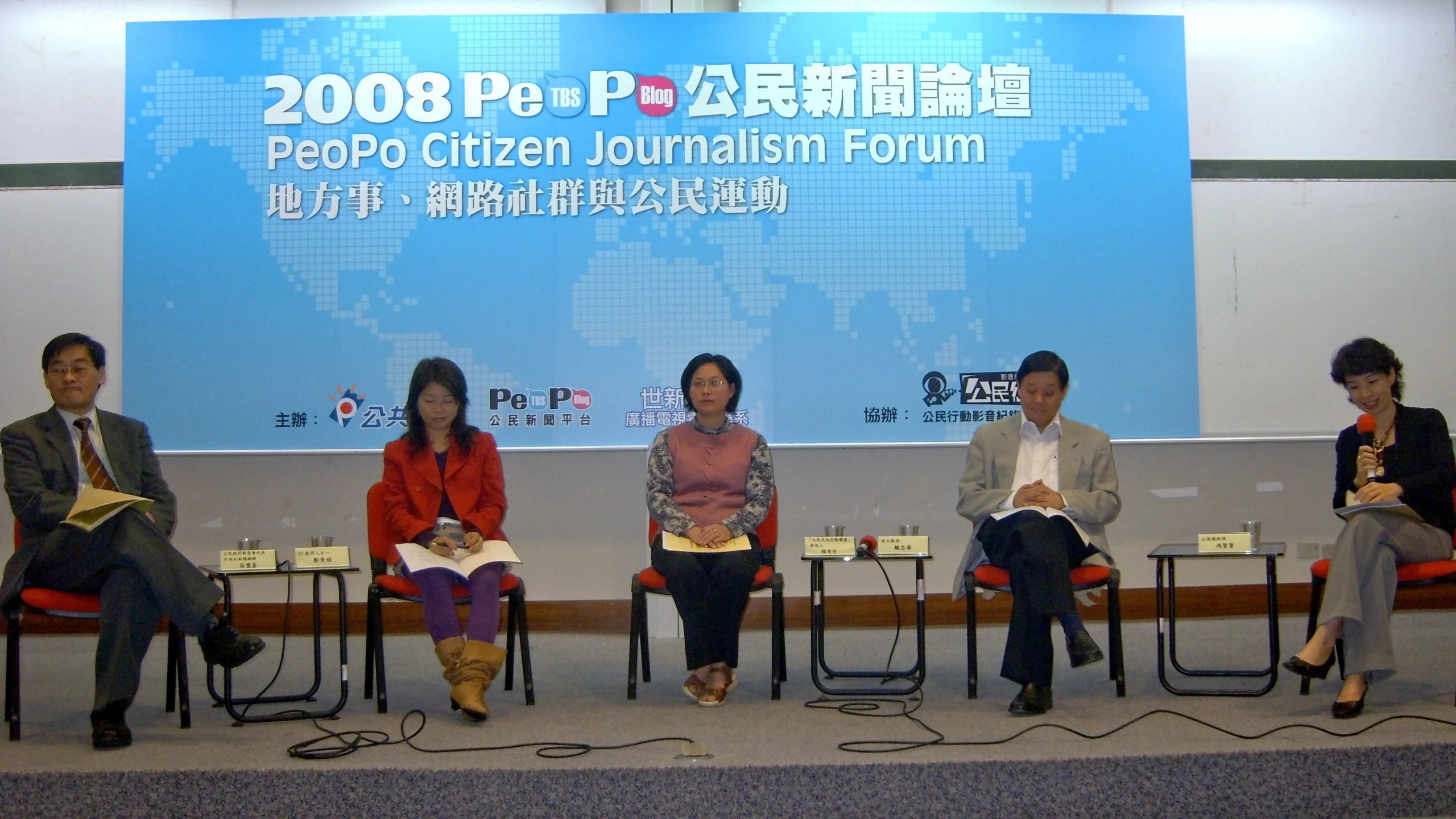 2008 PeoPo Citizen Journalism Forum: Discussion Section Part 1.